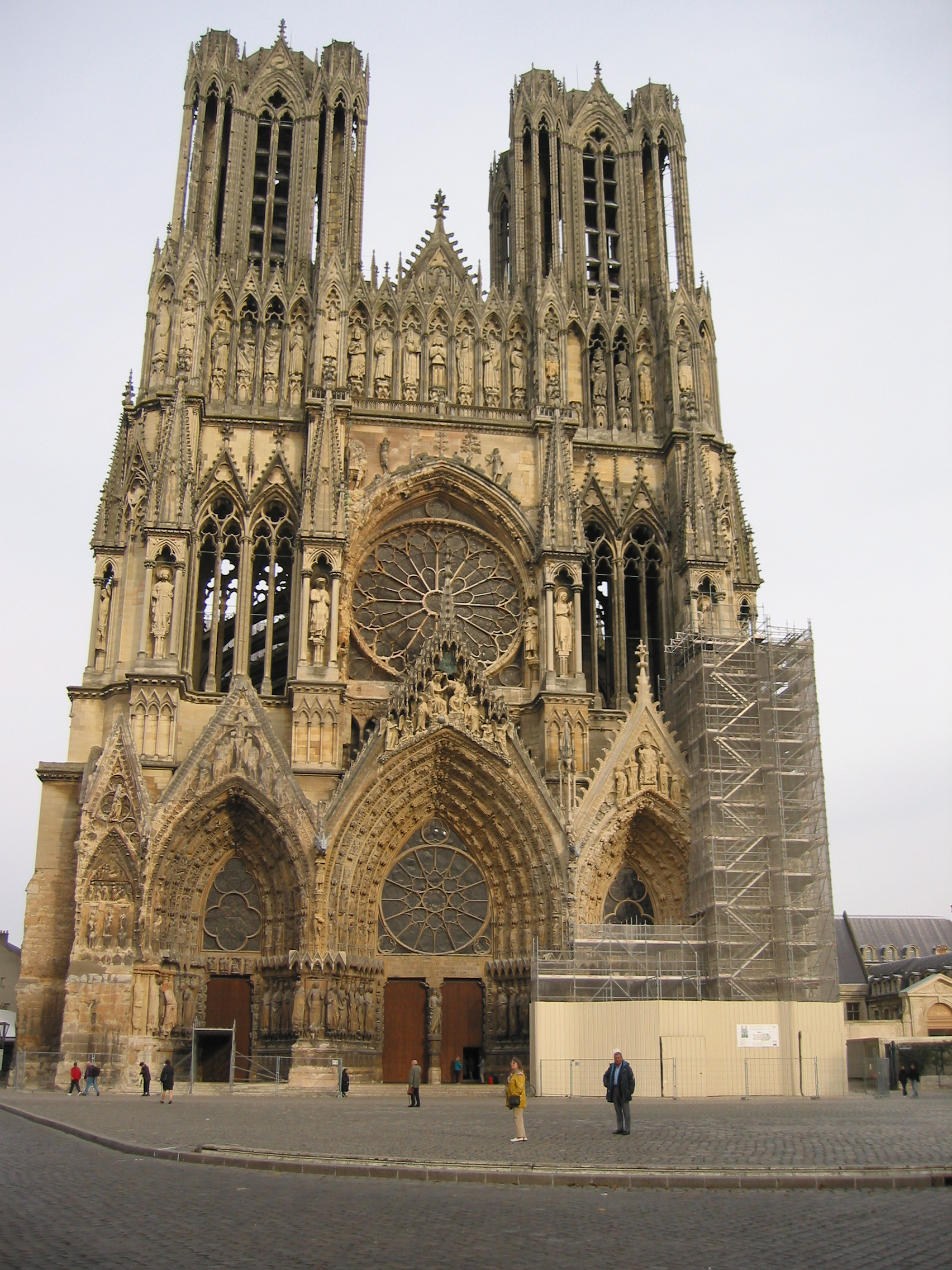 Cathedral in Reims, France.